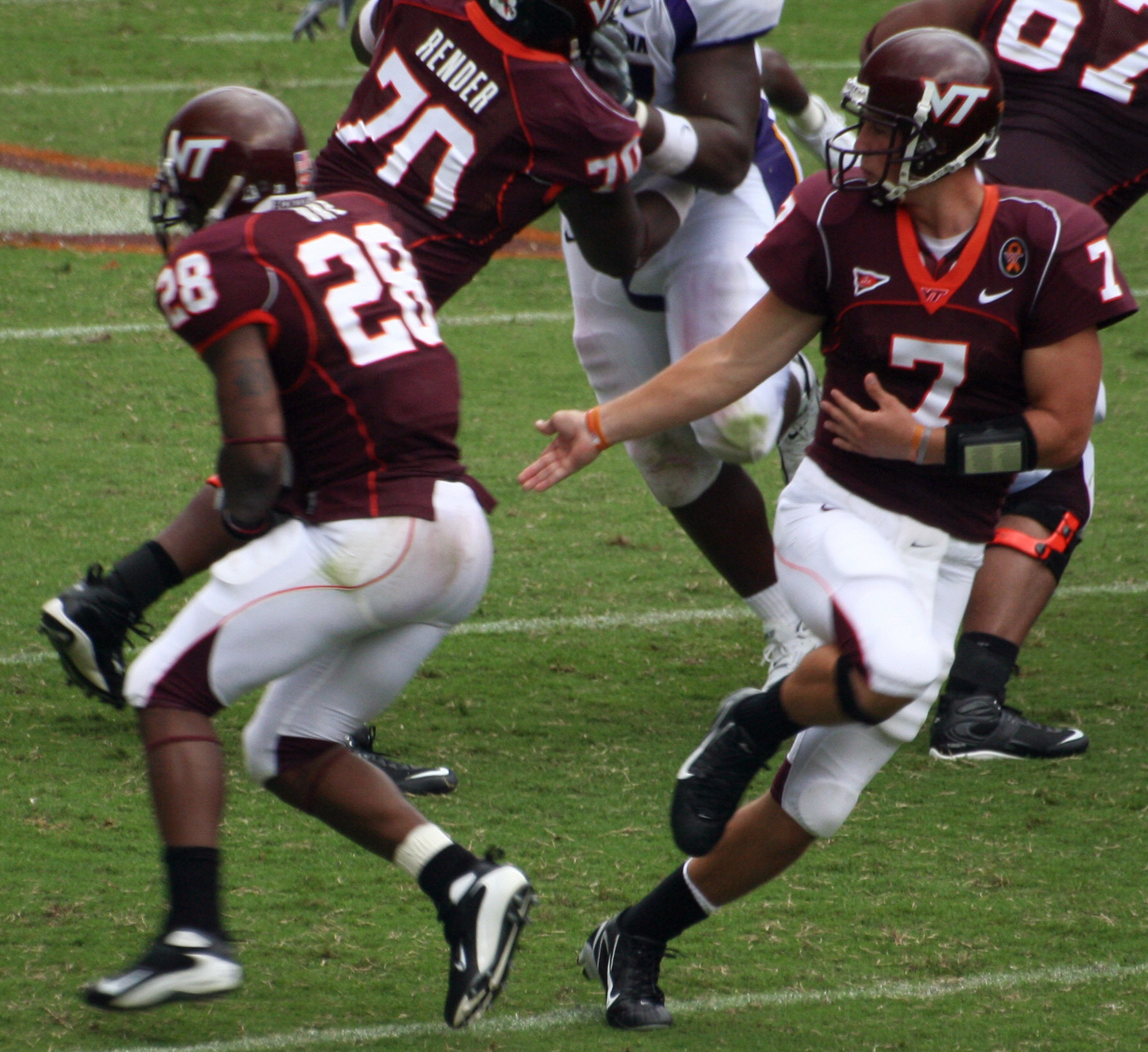 Virginia Tech Hokies quarterback Sean Glennon (en) hands off the football to Brandon Ore in the Hokies' 2007 season opener against East Carolina University.